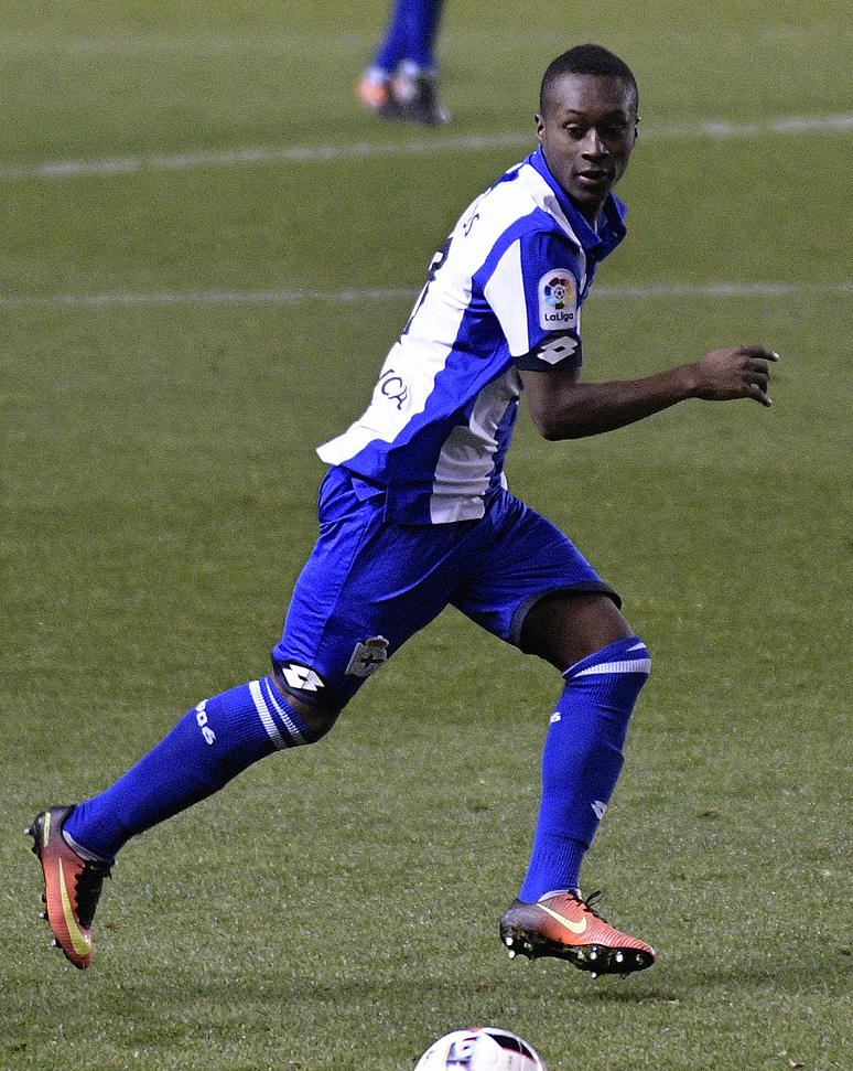 COPA DEL REY 2016-2017